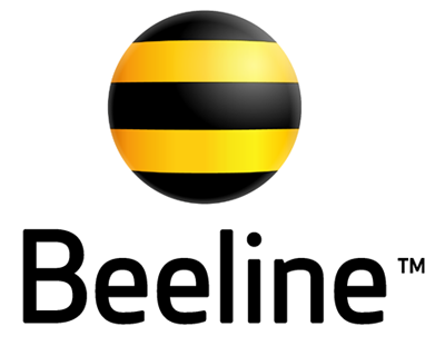 This is a logo for Beeline.